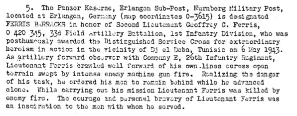 Excerpt of General Order 41, dated 11 May, 1949, renaming Panzer Kaserne in Erlangen, Germany, to Ferris Barracks.